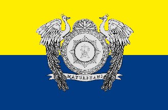 Flag of Mayurbhanj